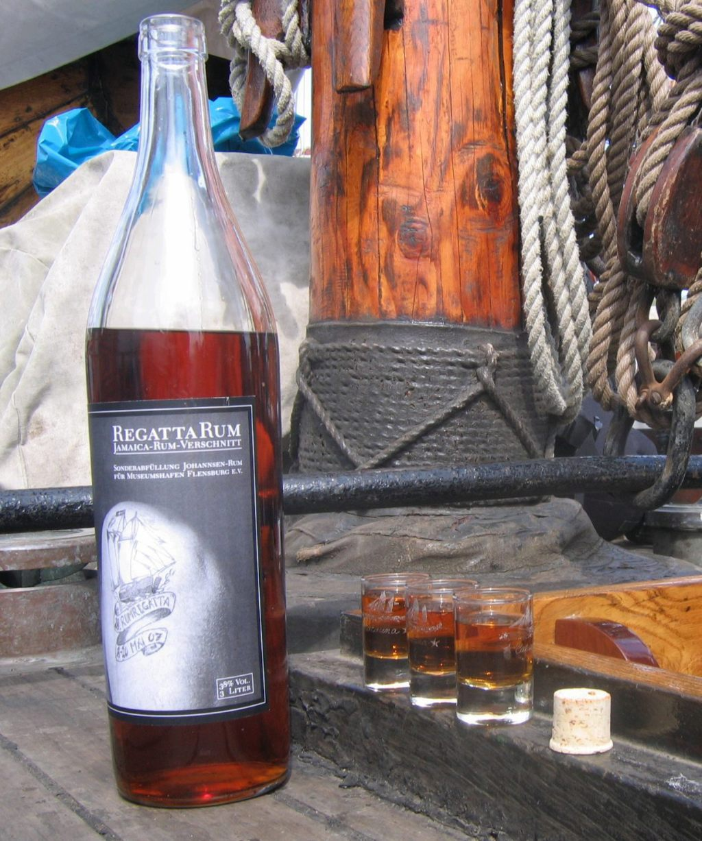 2 price on rumregatta in Flensburg / Germany